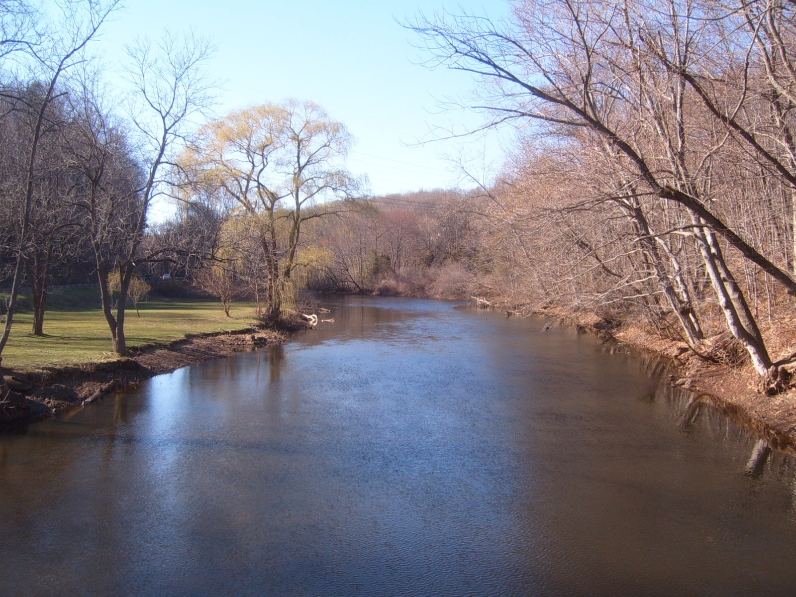 This is a picture of the Quinnipiac River looking west into the Quinnipiac River Gorge, as seen from "Red Bridge" in South Meriden, CT.